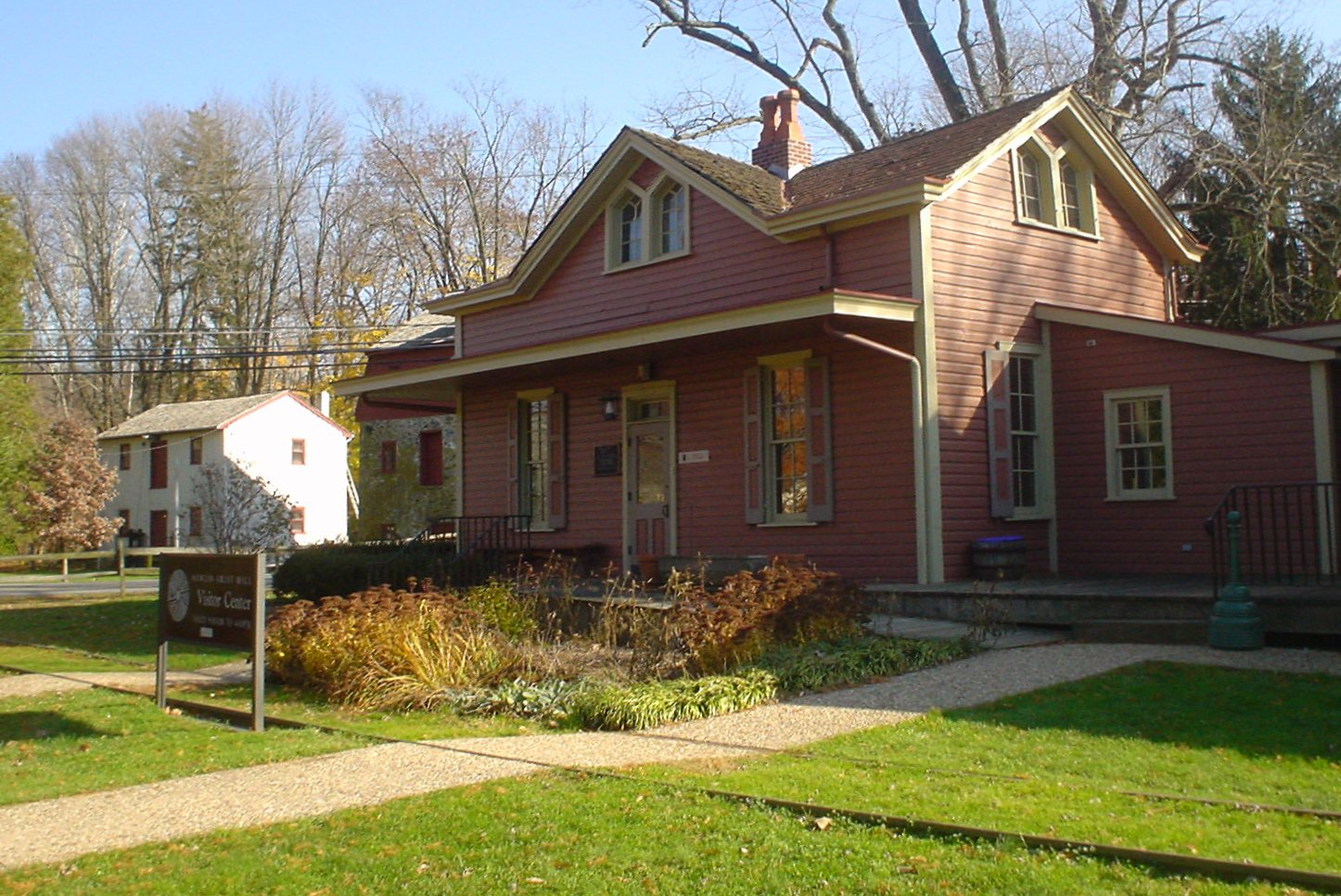 Old RR station. park office, Newlin Mills, PA. On NRHP. This is my own work and I donate it to the public domain.